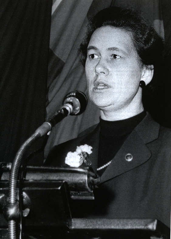 Inga Thorsson (1915-1994). Speach at International Women's Day 1958.